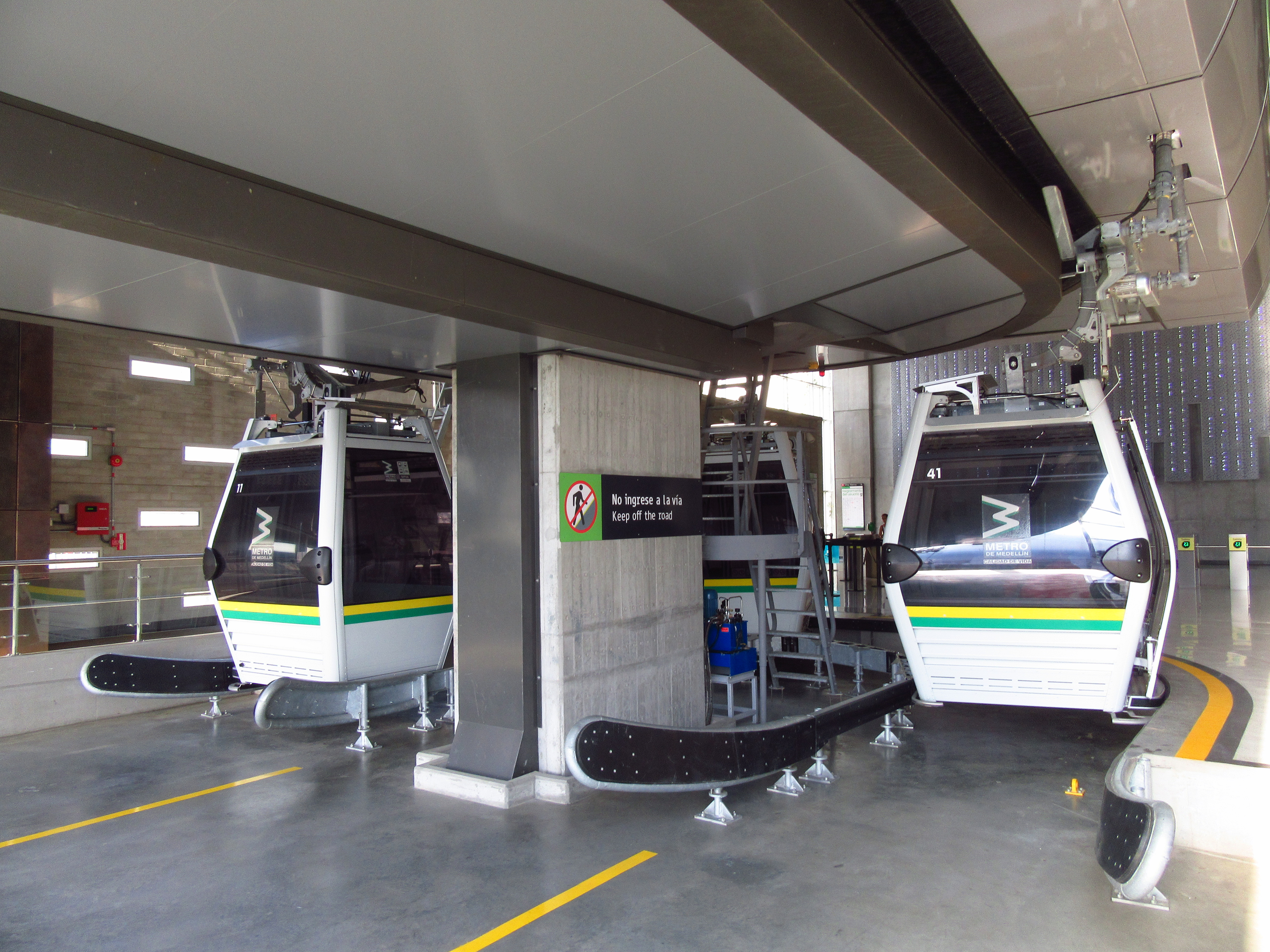 Medellín